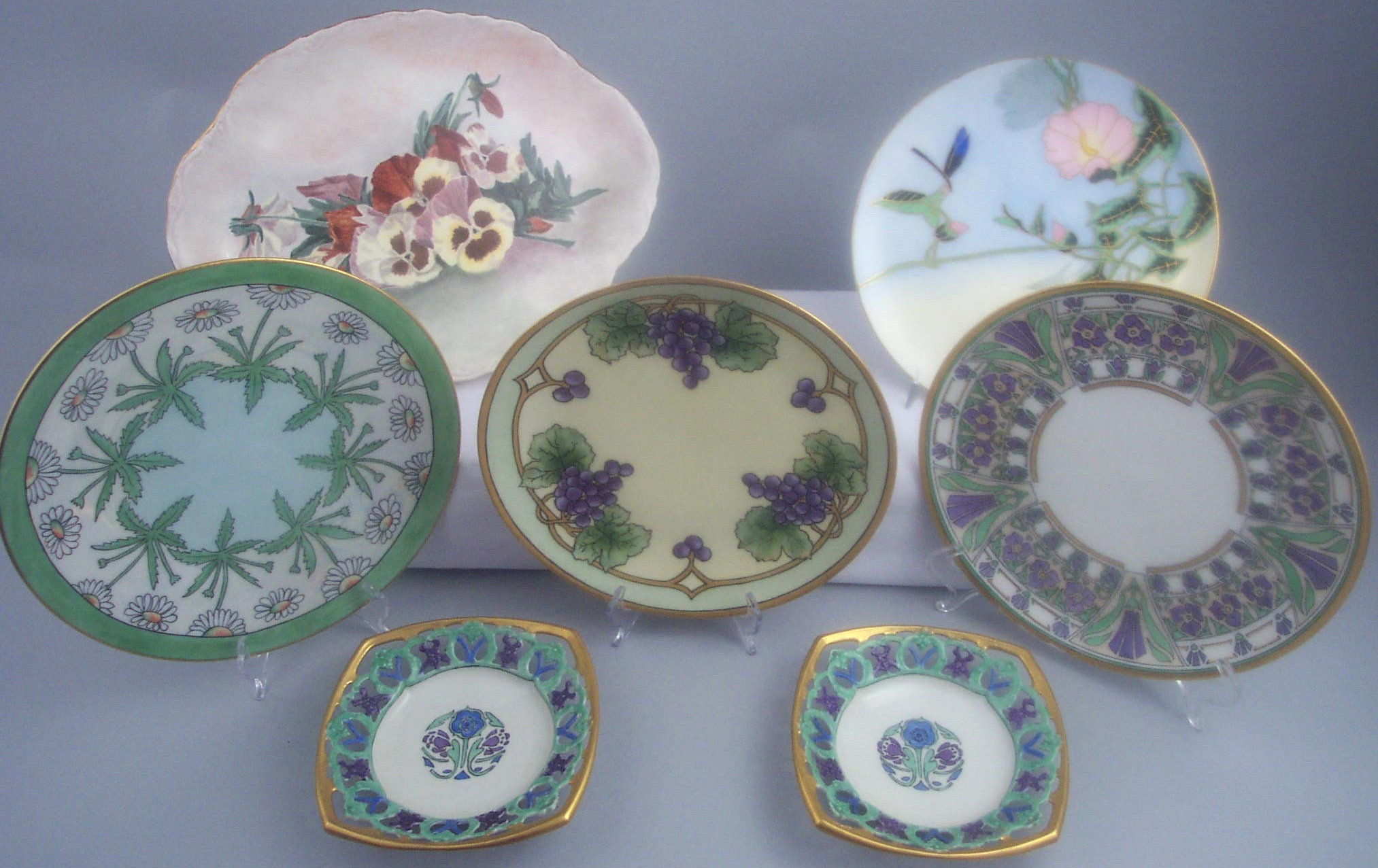 Decorative plates from Ontario and Alberta, 1st half of 20th century.